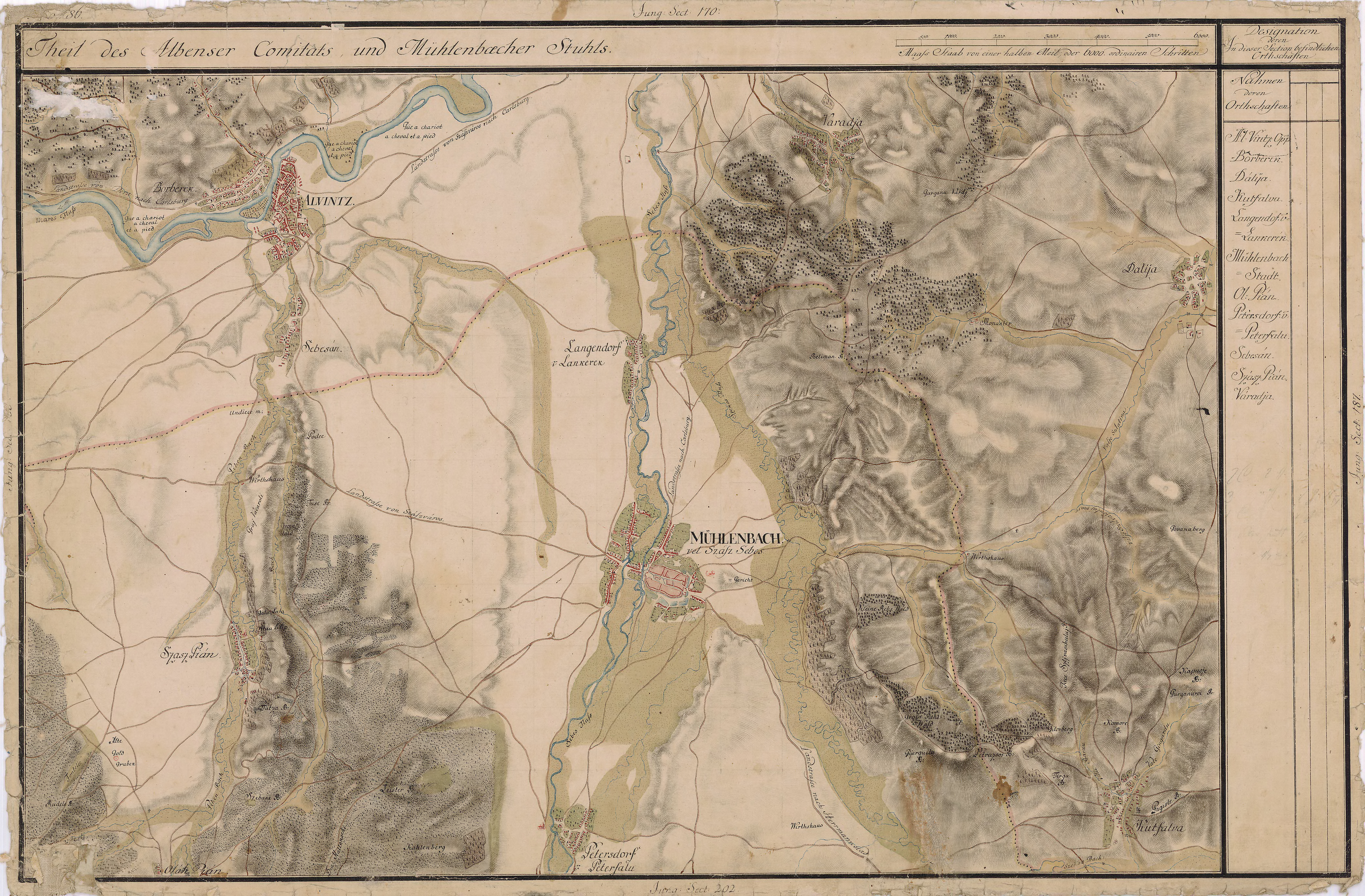 Grand Duchy of Transylvania, 1769-1773. Josephinische Landaufnahme pg.186